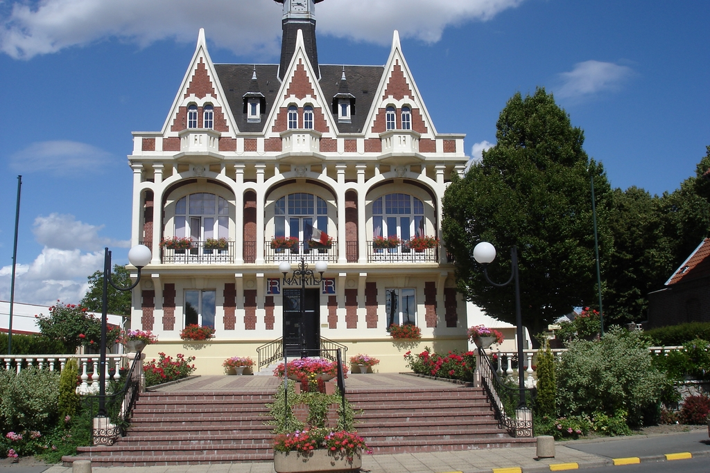 Town hall of Vimy (France). Photo taken by myself.